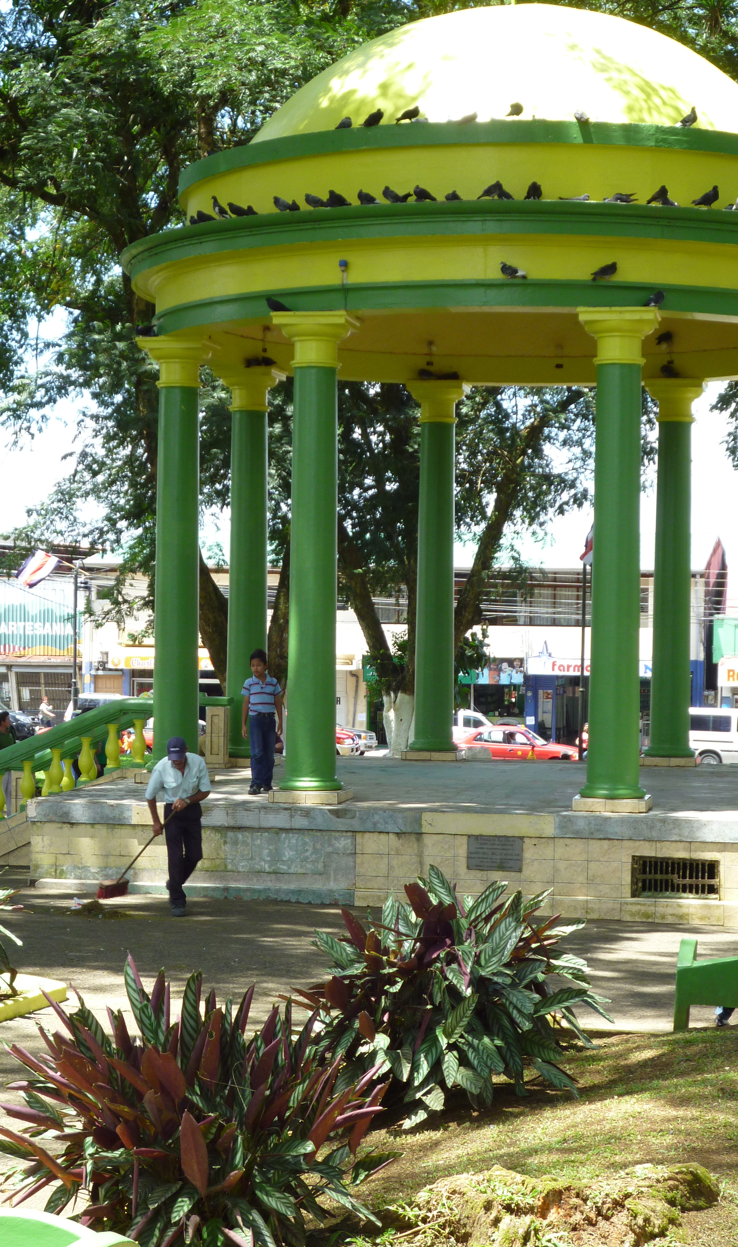 Ciudad Quesada, Costa Rica park.